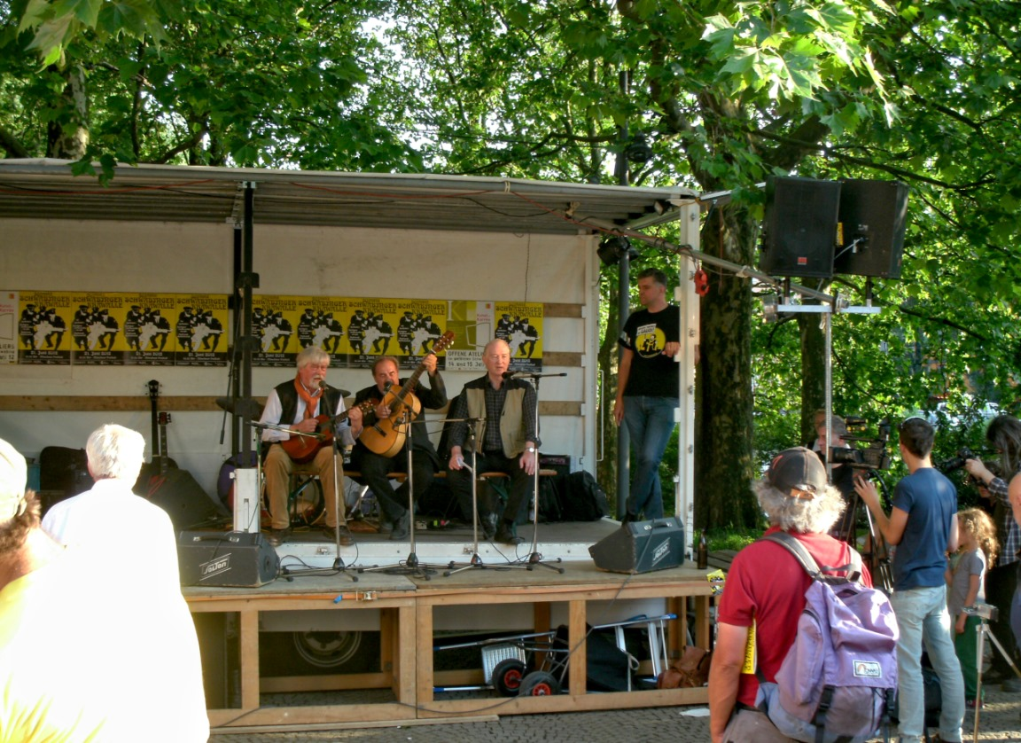 Munich, "District Schwabing", jubilee concert for fifty's anual of protestdays